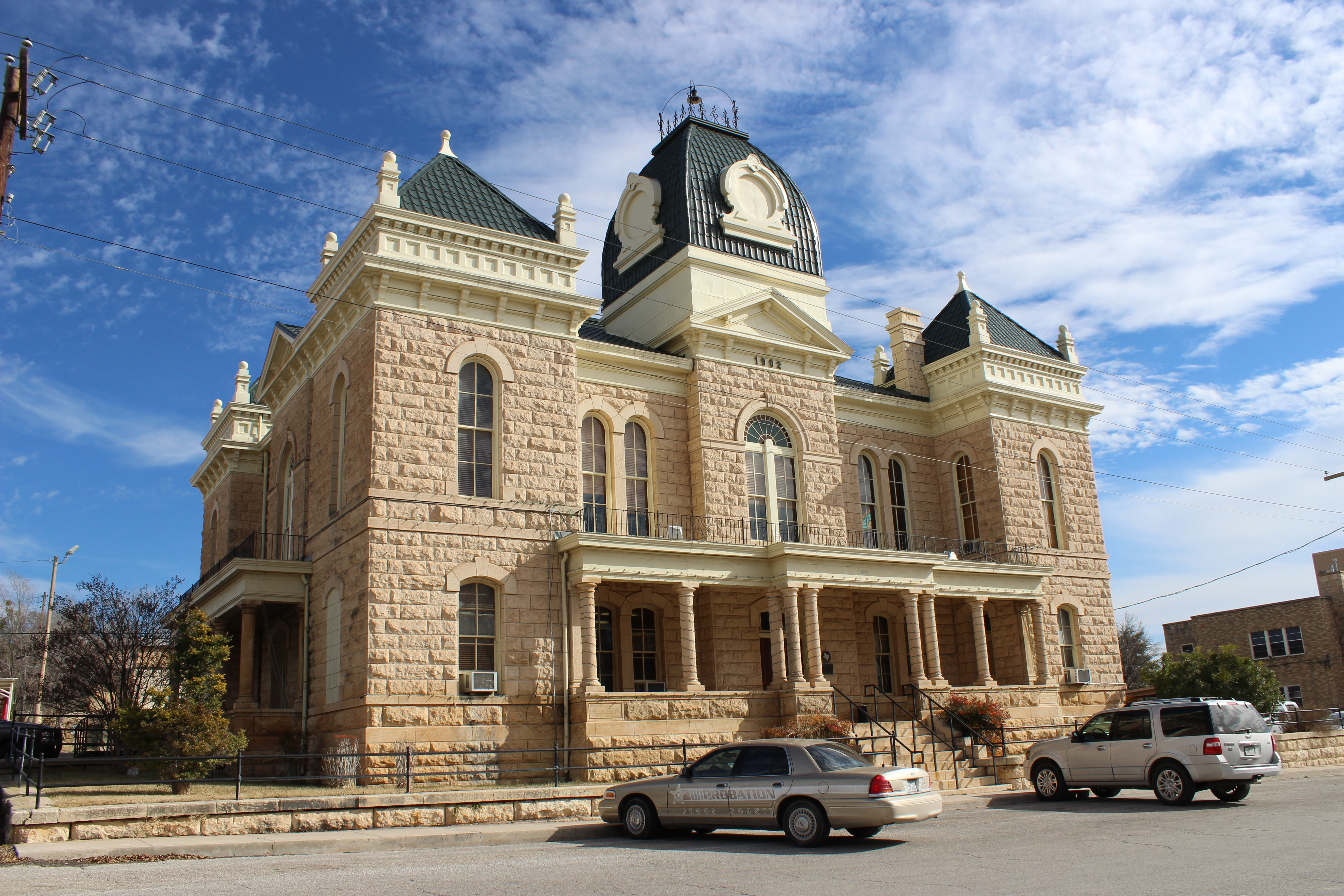 This is the county courthouse in Ozona, Crockett County, Texas